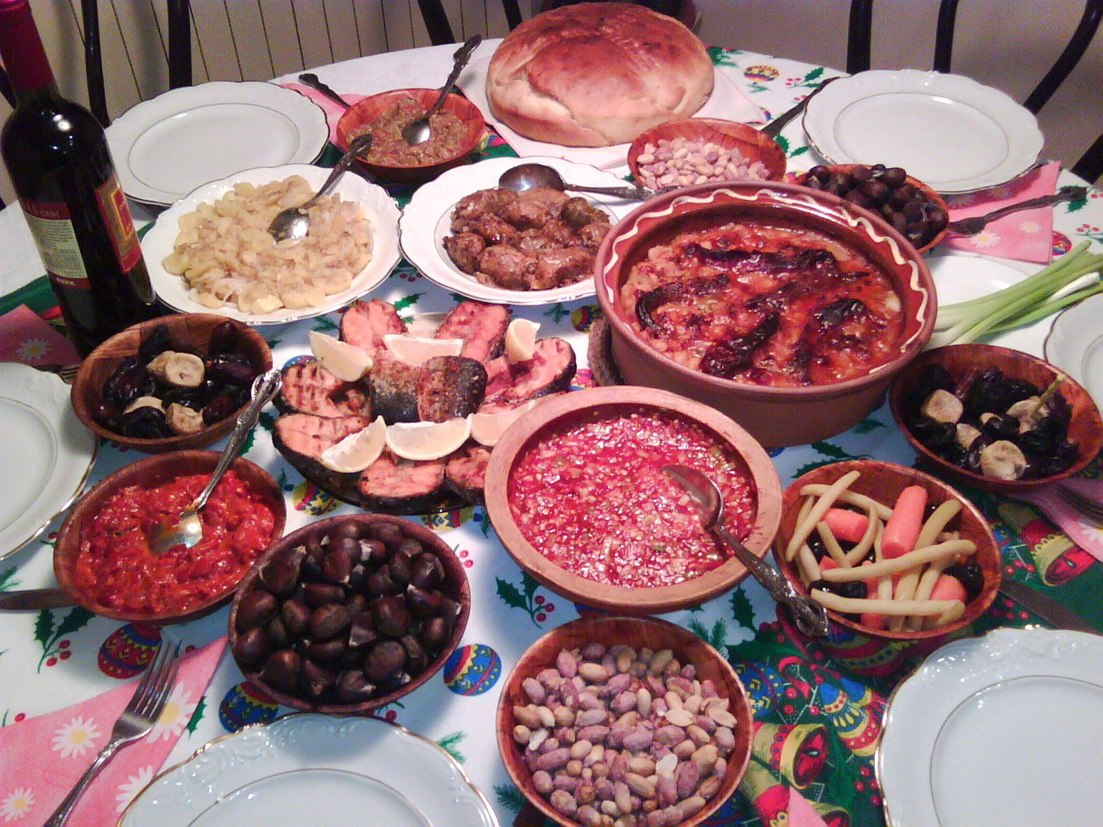 Macedonian Christmas Eve (Badnik) Dinner Table: Fish, Beans, Paprika salads, Sarma, Dates, Figs, Chestnuts and the Bread loaf with concealed coin. Prepared according to the rules of fasting.